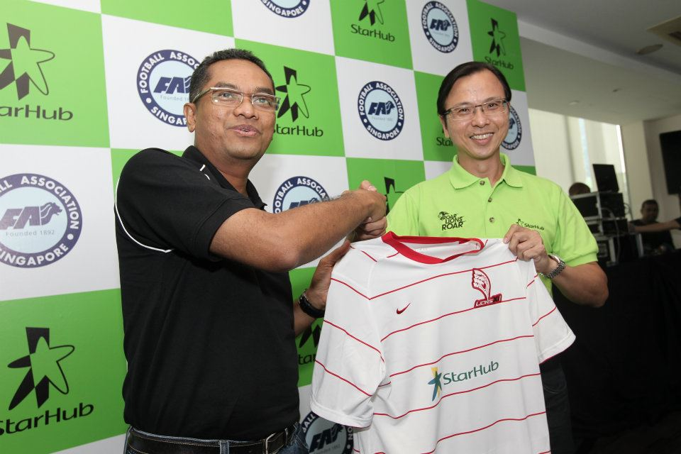 Zainudin Nordin, President of the Football Association of Singapore; and Tan Tong Hai, the Chief Executive Officer and Executive Director of StarHub, marking StarHub's appointment as official broadcaster and principal sponsor of the LionsXII.